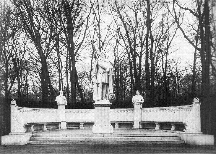 Monument in the former Siegesallee in Berlin commemorating to Waldemar, Margrave of Brandenburg-Stendal (ca. 1280–1319). The bust on the left commemorates to the Grand Master of the Teutonic Knights Siegfried von Feuchtwangen, and the bust on the right to the Middle High German poet Heinrich Frauenlob von Meißen. Sculptor: Reinhold Begas, the sculpture was inaugurated on 22 March 1900.